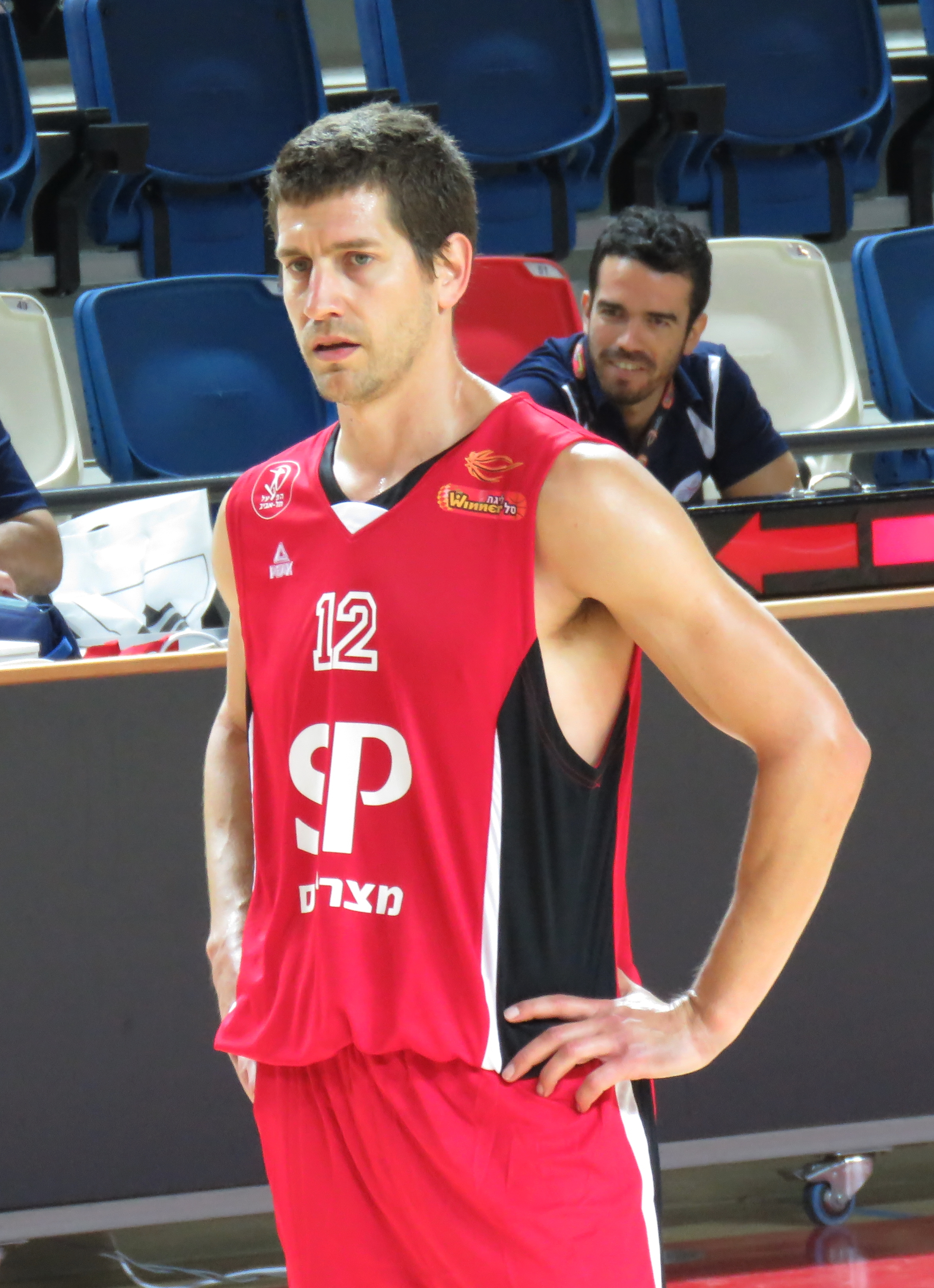 Hapoel Tel Aviv vs. Hapoel Eilat - Pre-season friendly, Septeber 11, 2015